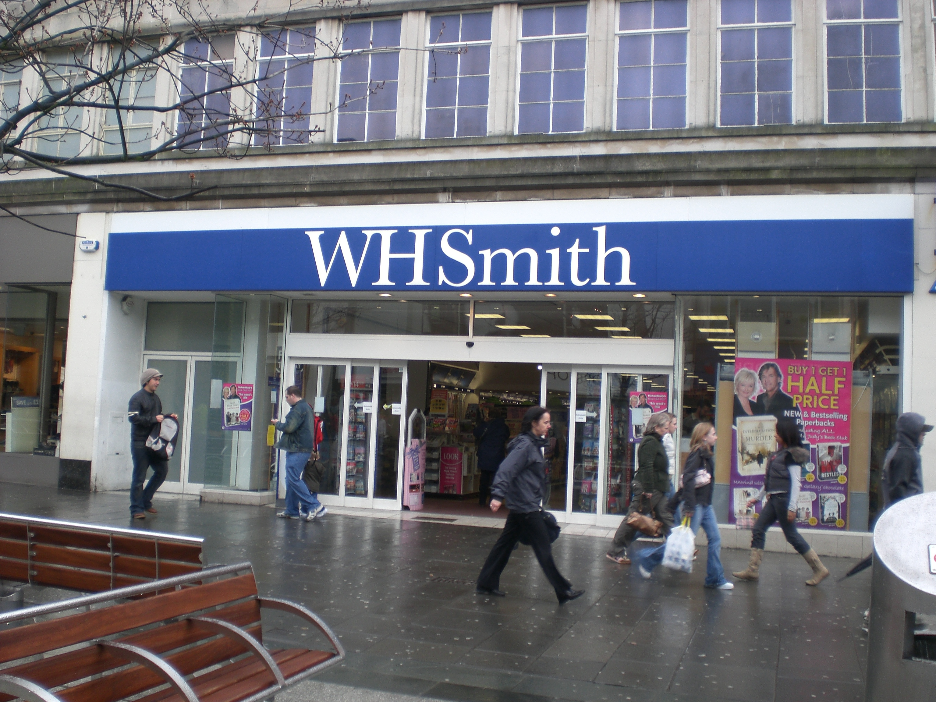 A typical W H Smith exterior